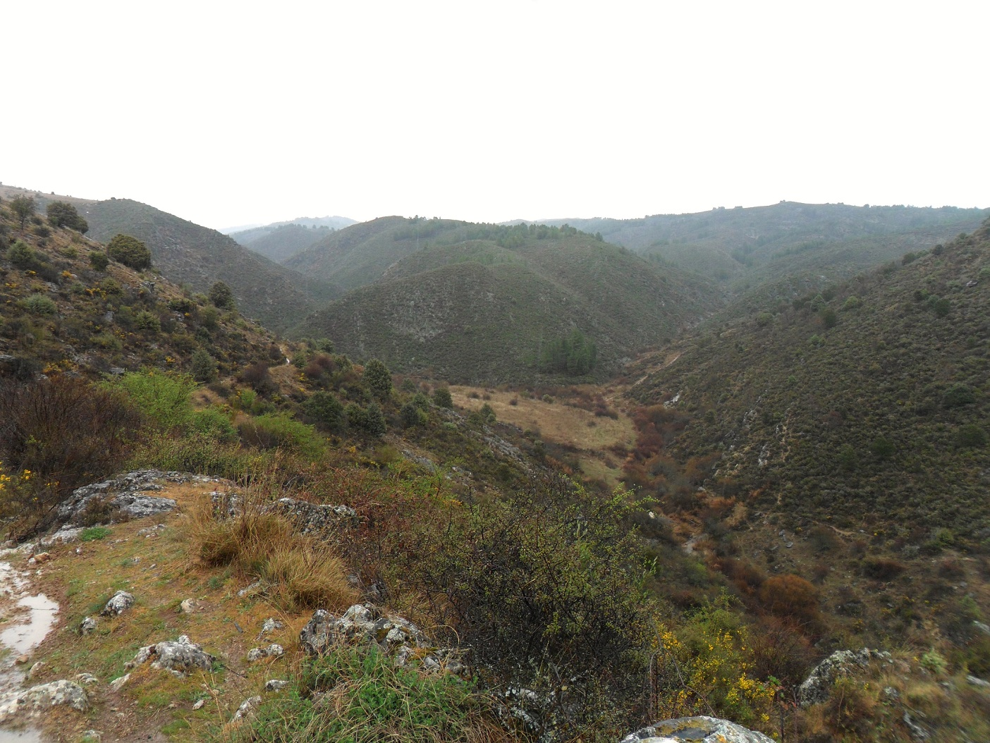 Fuente del Cubillo ravine in Valdepeñas de la Sierra (Guadalajara, Castile-La Mancha, Spain).